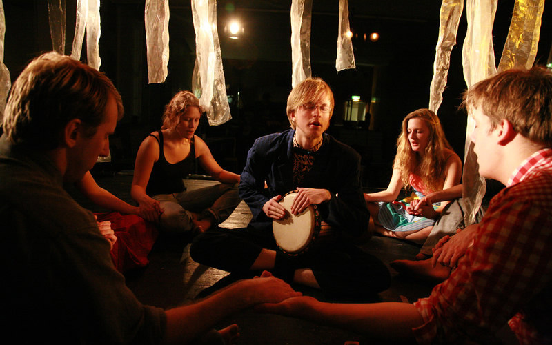 Photo of a session in the theatrical ensemble 'Lunds nya Studentteater' during the autumn 2006 play of 'Dante's Divina Commedia'.